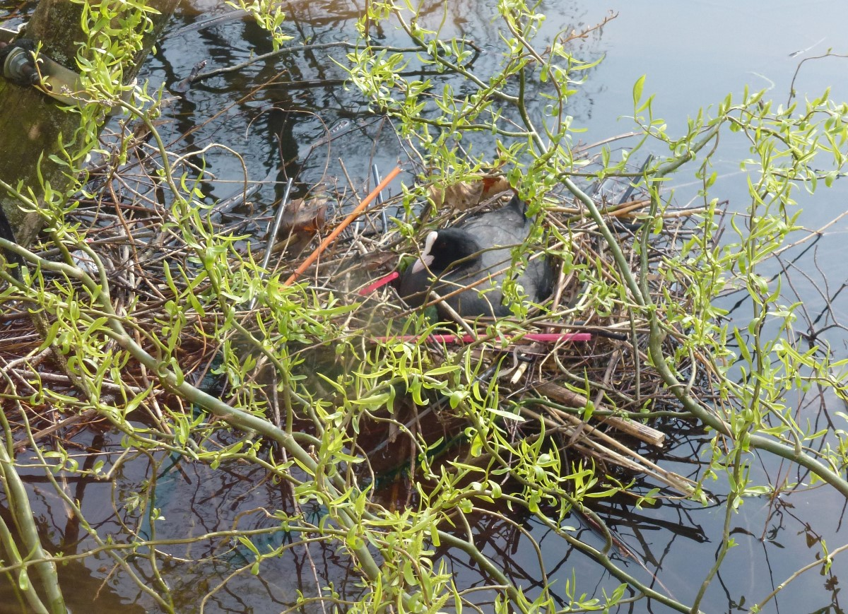 Swimming nest of an Eurasian Coot in Berlin (Fulica atra), Photo: Elke Brüser